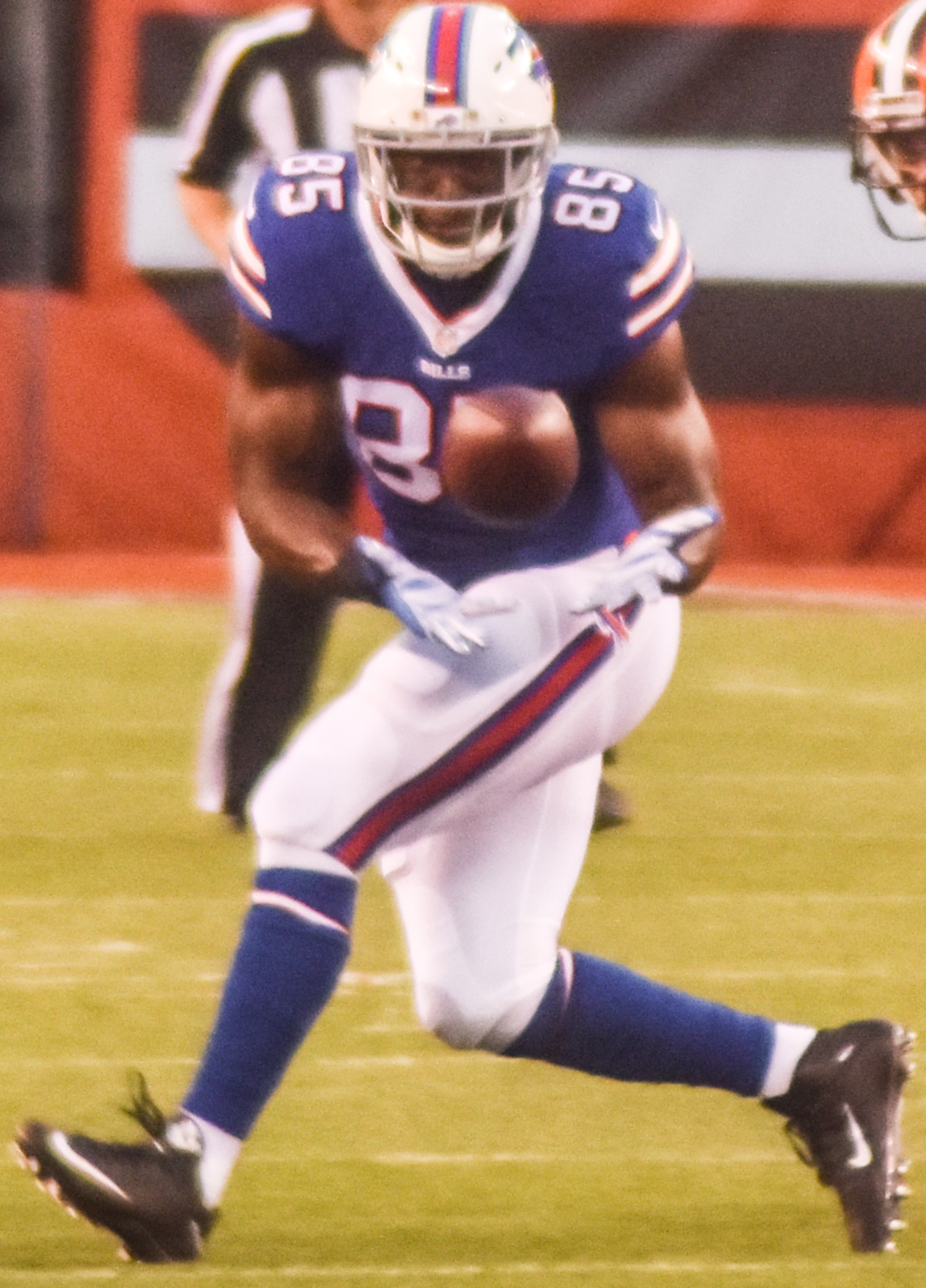 Cleveland Browns vs. Buffalo Bills